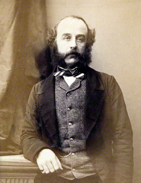 Portrait photograph of Arnold Borrowes Kemball by Camille Silvy (1834-1910), taken 6 December 1860